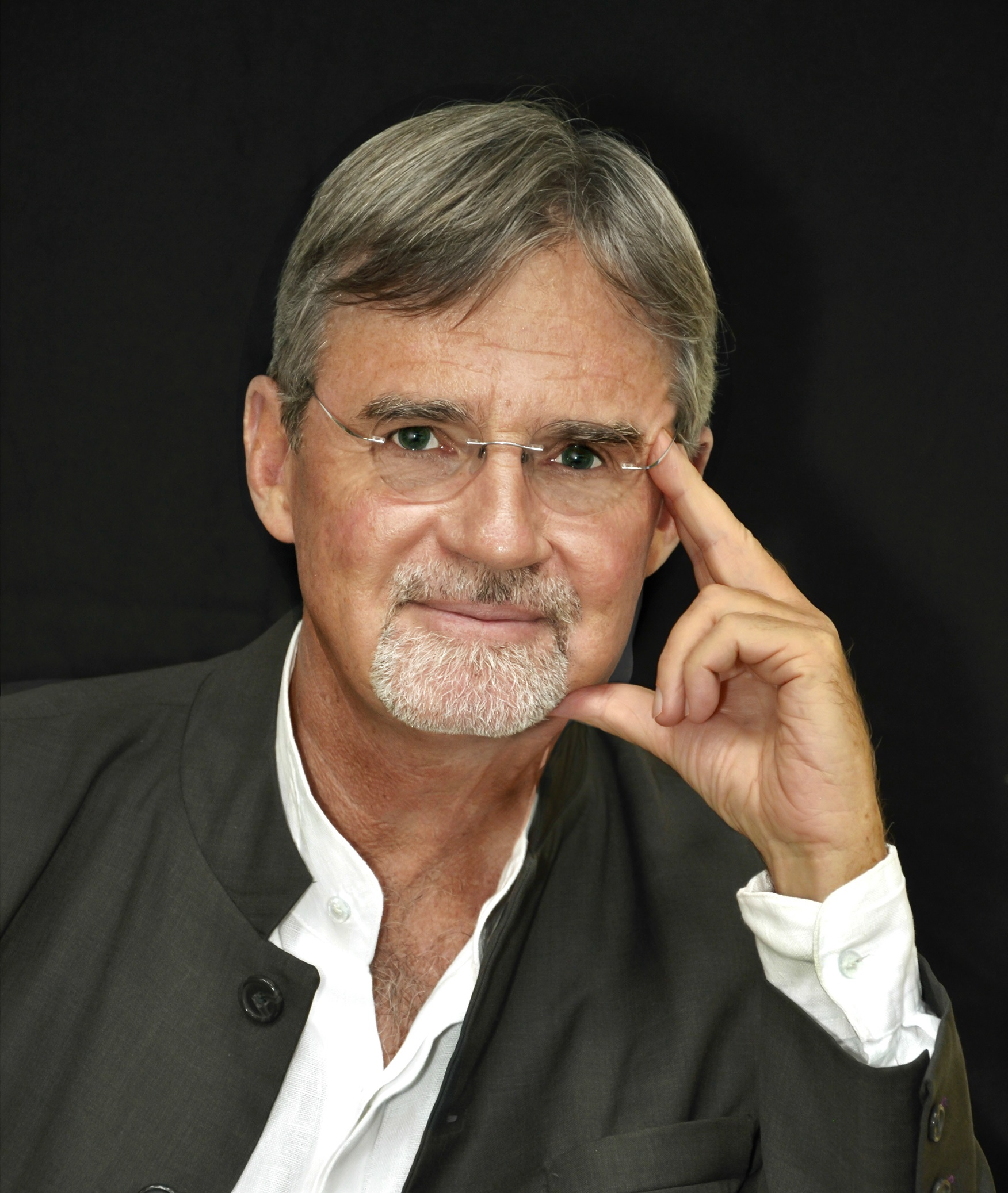 A photo of Kai Bird, October 2013